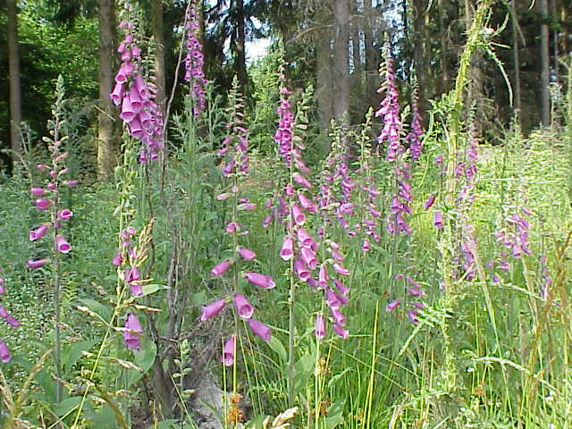 Species: Digitalis purpurea Family: Scrophulariaceae Image No. 5